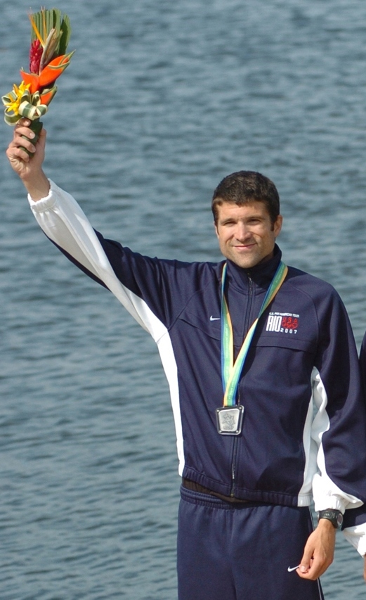 Simon Carcagno celebrates winning silver medals in the lightweight men's four event July 19 at the XV Pan American Games in Rio de Janeiro, Brazil.